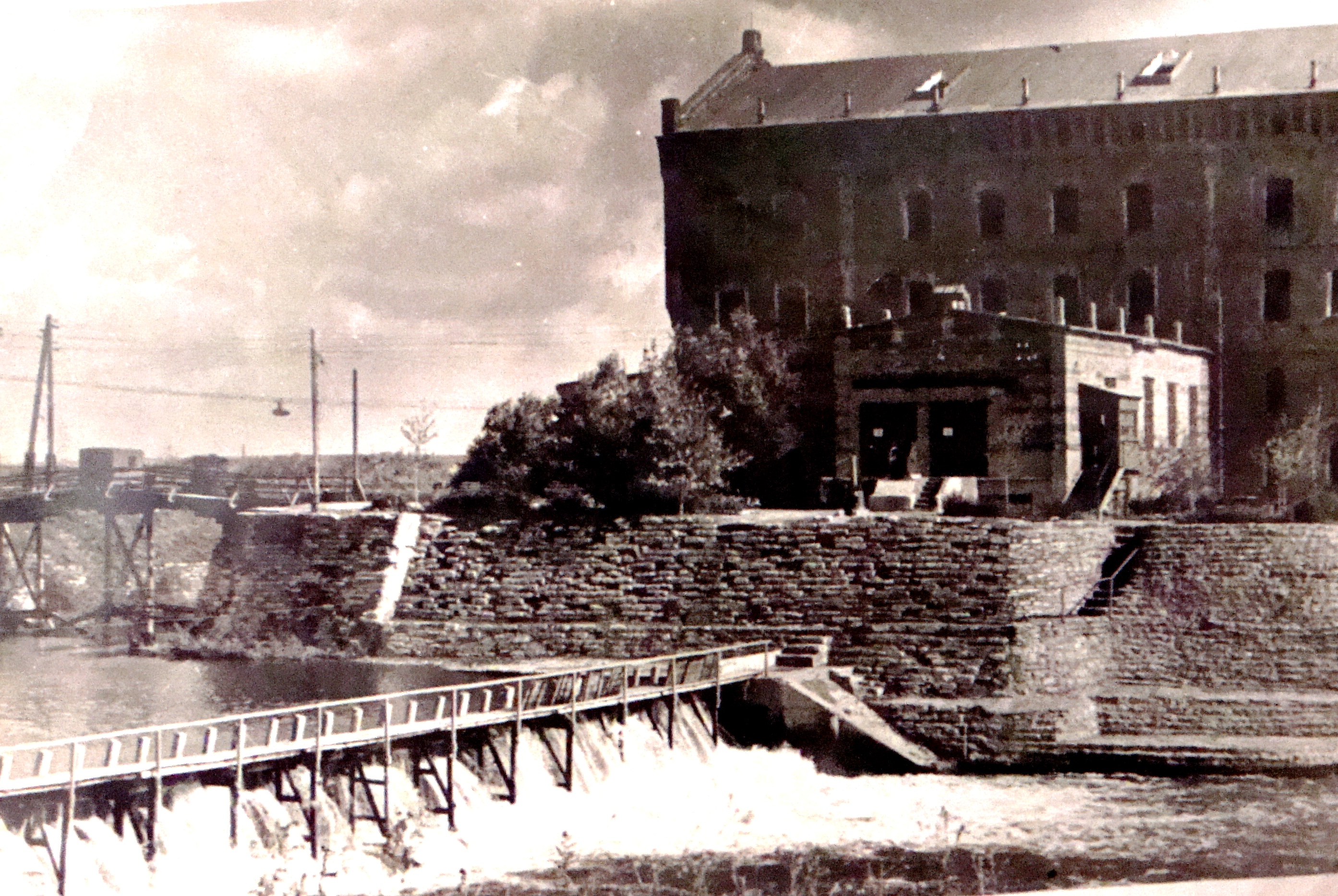 Adamovskay melnica